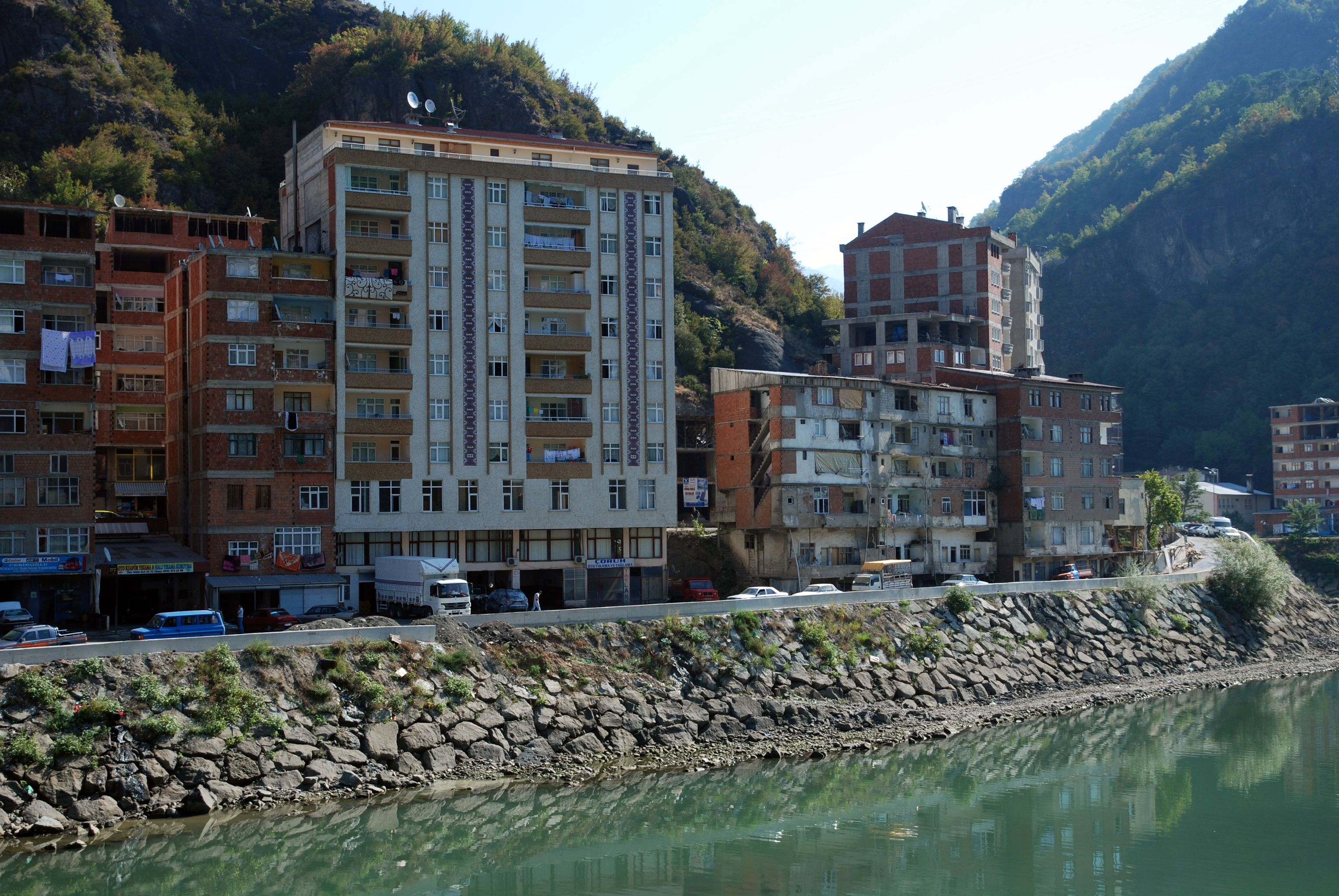 Borçka, Çoruh river